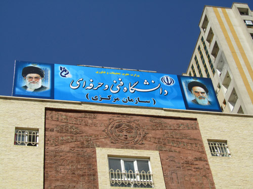 Technical and Vocational University